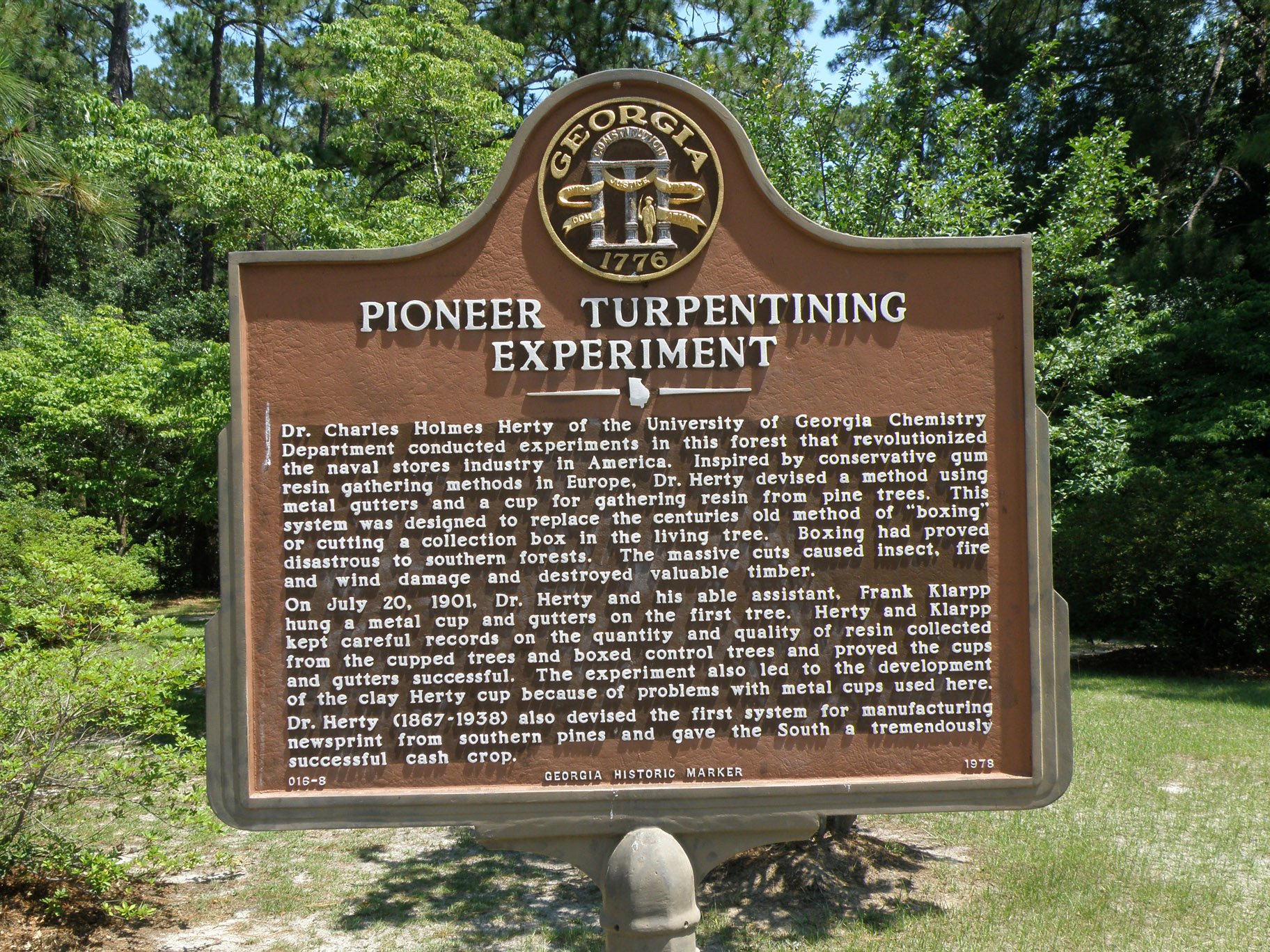 Historical marker of the location where the turpentine industry was improved through the efforts of Dr. Charles Holmes Herty of the University of Georgia. This marker is located on the campus of Georgia Southern University near Sweetheart Circle in the Herty Pines Nature Preserve.